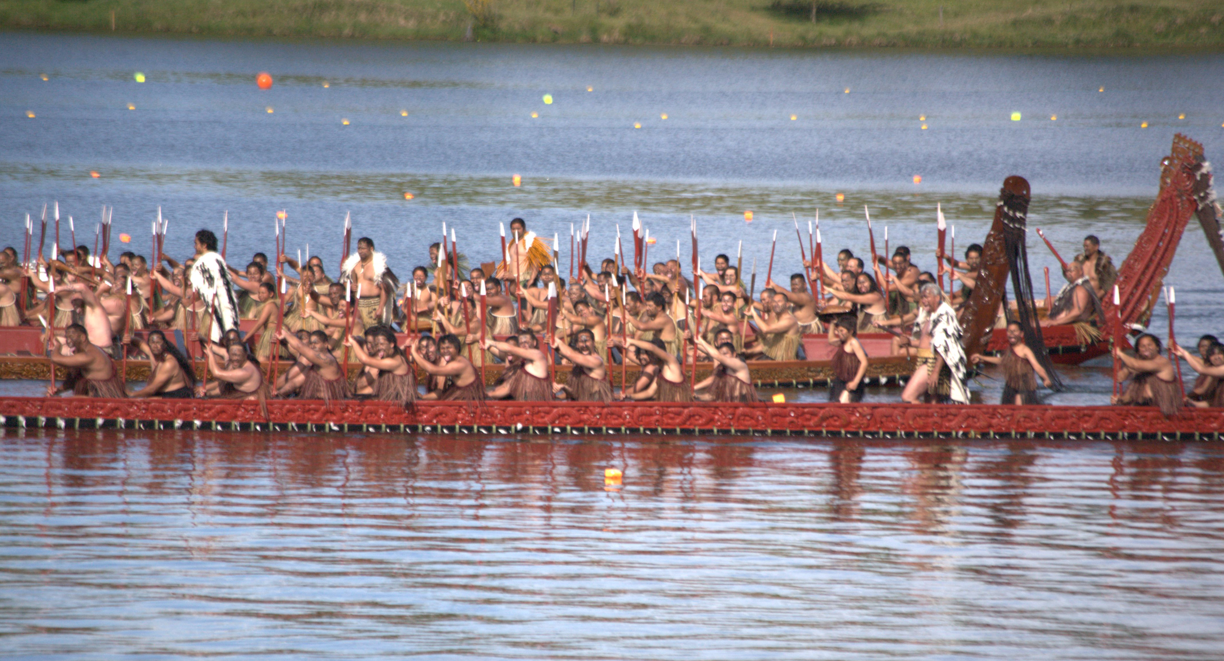 War canoes 2010 World Rowing Championships.